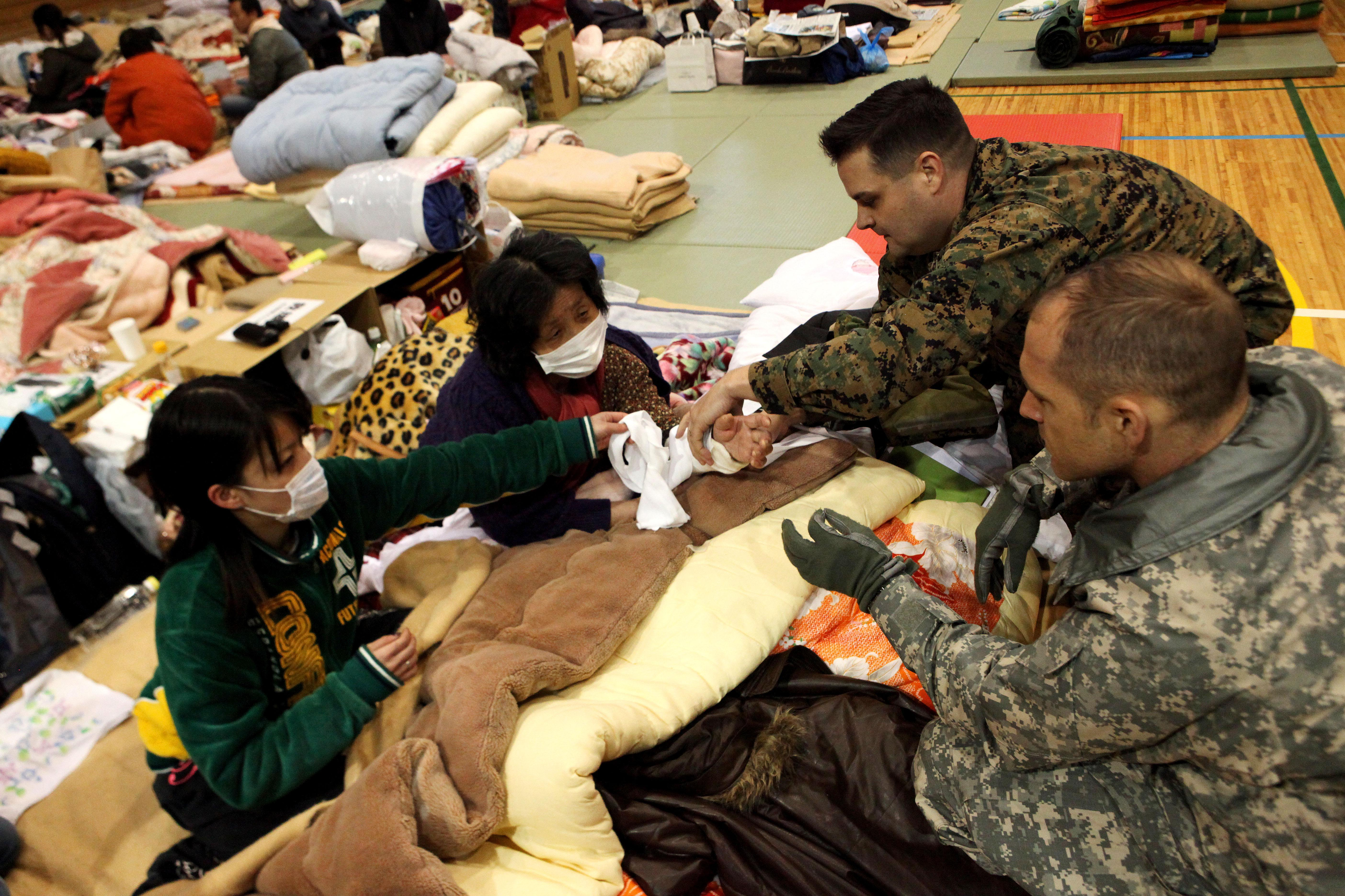 AICHI, Japan (March 21, 2011) Lt. Cmdr. Ewell Hollis, a physician assigned to III Marine Expeditionary Force, examines a Japanese woman who broke her arm during the tsunami at an emergency shelter established at a school. U.S. armed forces and Japan Ground Self-Defense Forces are surveying the school for plans to establish power, food and water supply lines in support of Operation Tomodachi after a 9.0 earthquake and subsequent tsunami struck Japan March 11. (U.S. Marine Corps photo by Gunnery Sgt. Leo Salinas/Released)